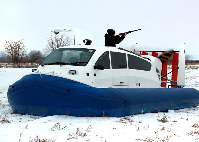 9 passenger Hovercraft Caiman for fishing and hunting. Russia.